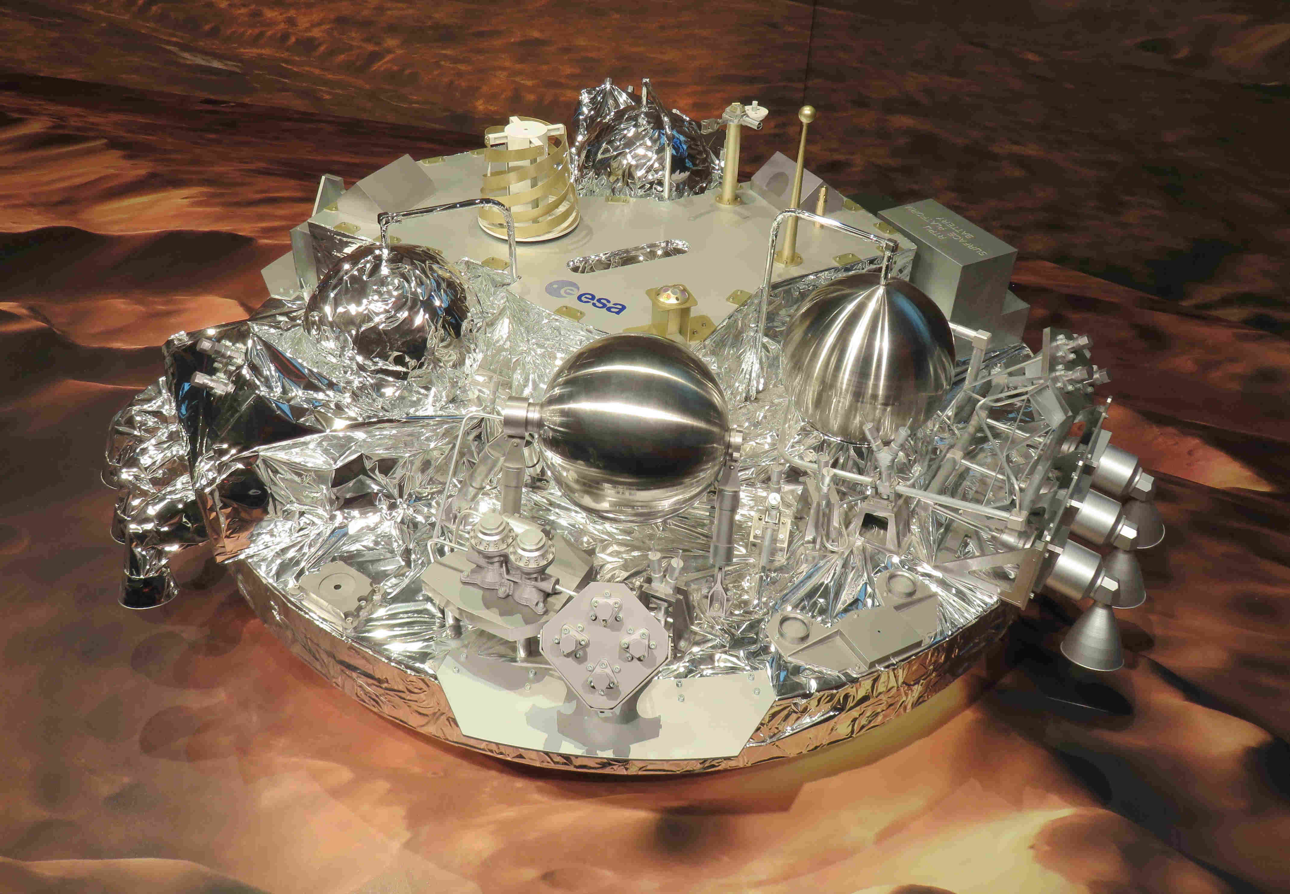 Model of Schiaparelli, Lander of ExoMars Trace Gas Orbiter Projekt 2016, seen at ESOC in Darmstadt, Germany